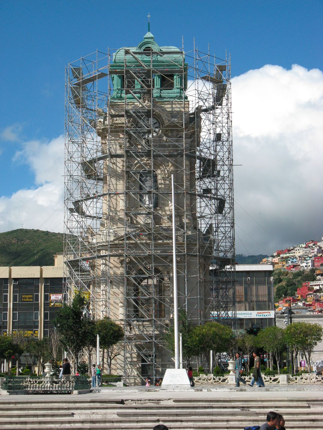 Reloj de Pachuca (Pachuca de Soto, Estado de Hidalgo, México) during restoration period on 2008.